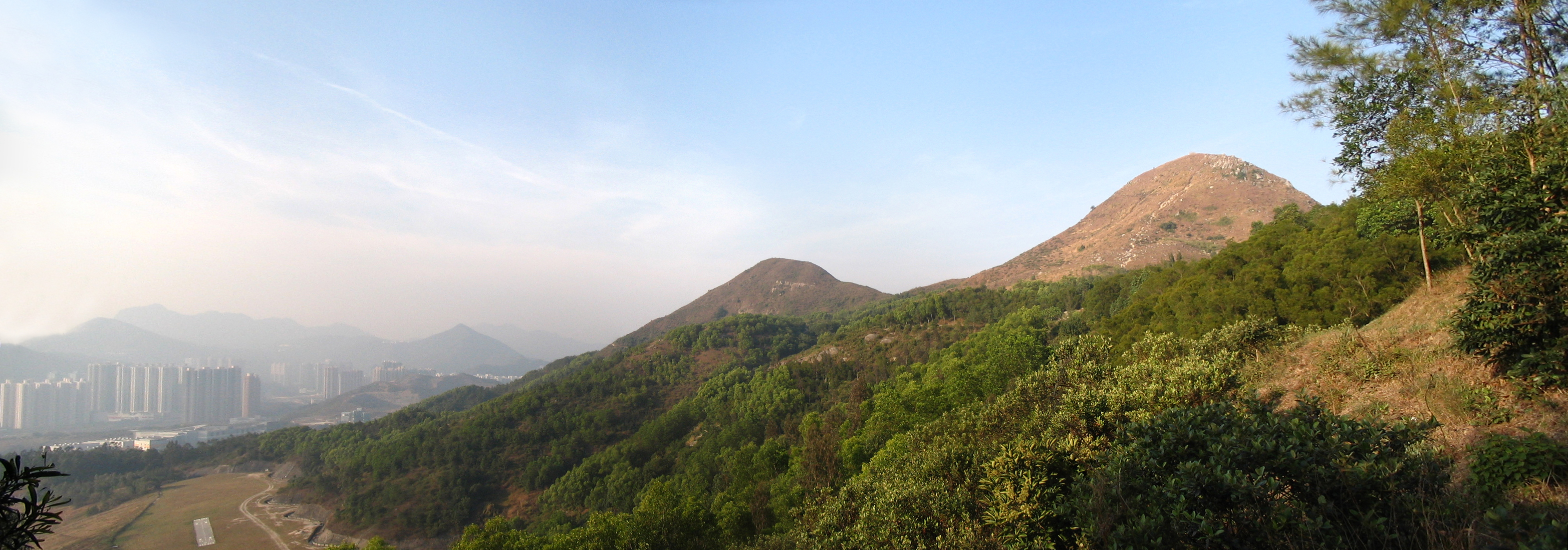 Panoramic photo of Miu Tsai Tun and High Junk Peak, combined from 2168218763, 2168217807, 2168216941, 2168215859, 2169006650 and 2169005460